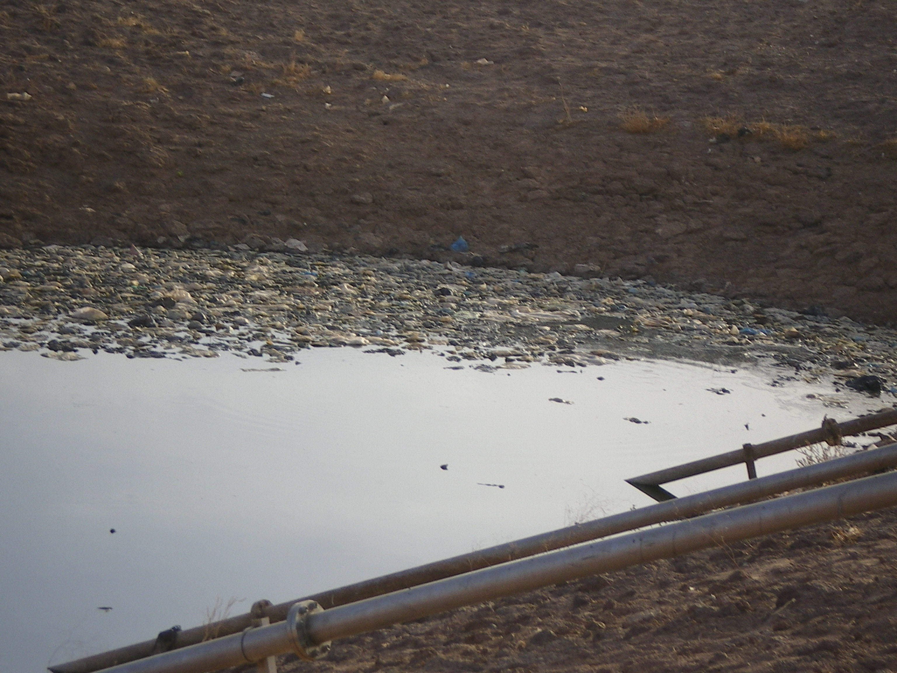 Burkina Faso: solid waste reuse in Ouagadougou - La réutilisation des déchets solides à Ouagadougou